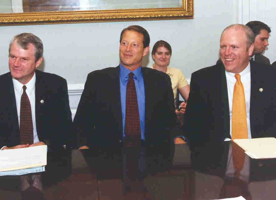 Congressman Joseph Crowley, President of the Freshmen House Democrats, leads a meeting with Vice President Gore and the Freshmen class. They are joined by outgoing class President Brian Baird (D-WA).